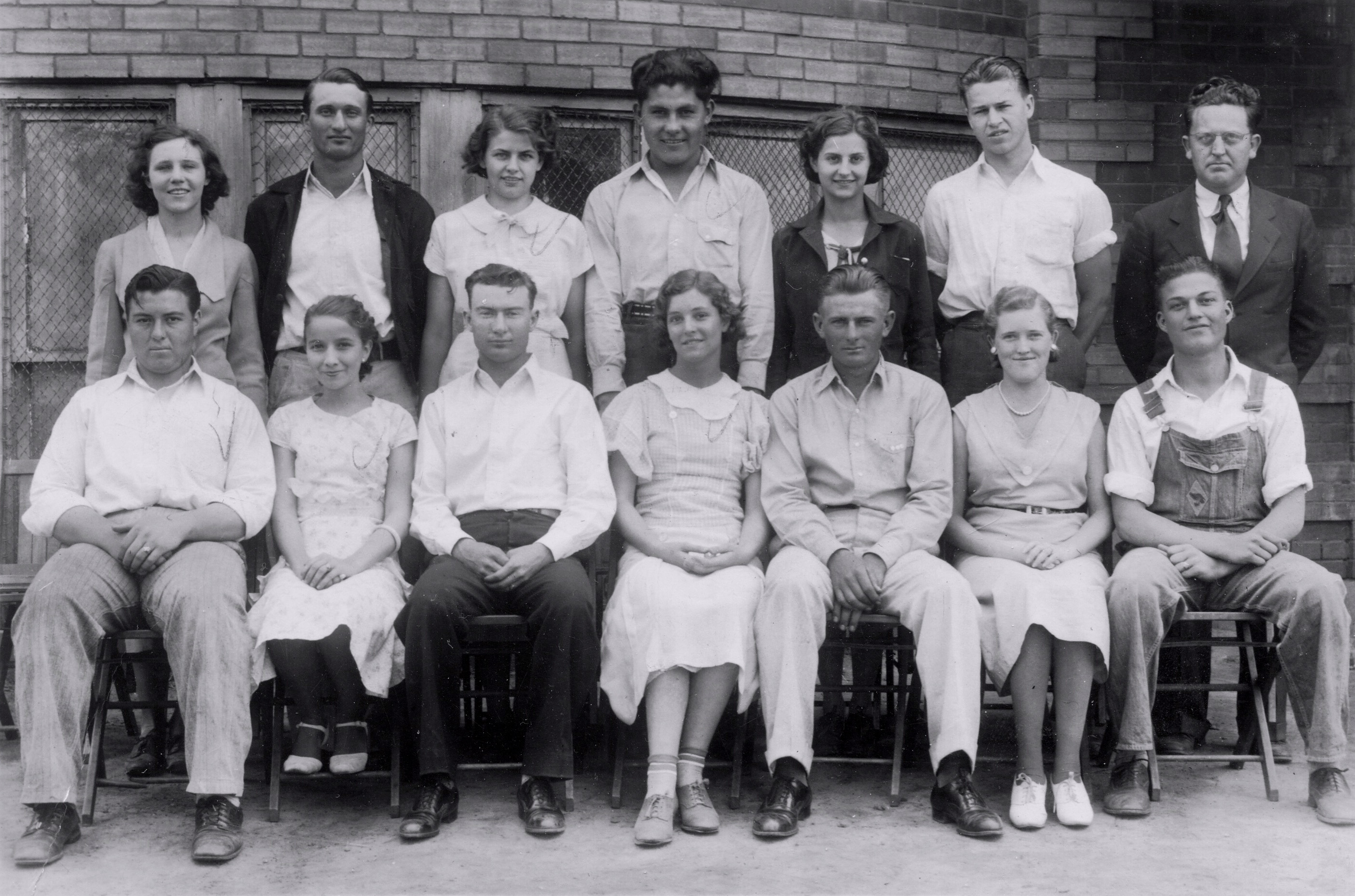 Senior class picture Vian High School with Franklin Gritts